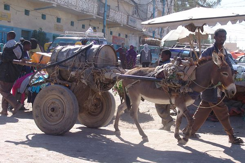 Hargeisa, Somalia. Image taken by Charles Fred on flickr. The creator has granted GFDL licensing and permission for use in the wikimedia project.